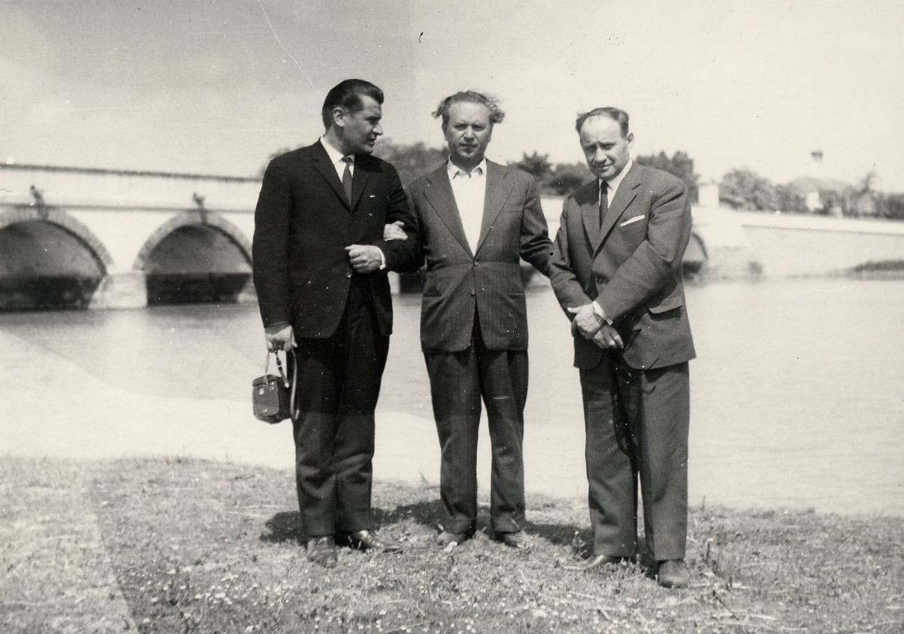 Väinö Linna and Harri Kaasalainen on a trip to Hungary in the spring 1963. Between them is the poet and frien of Finland Géza Képes, who translated classical literature from various languages, even Persian, and who spoke Finnish well. He translated Kalevala into Hungarian and participated in the Thália-theatre's well-known Hungarian Kalevala-production. In the background, Hortobágyi historic stone bridge in Eastern Hungary close to Debrecenia is seen.